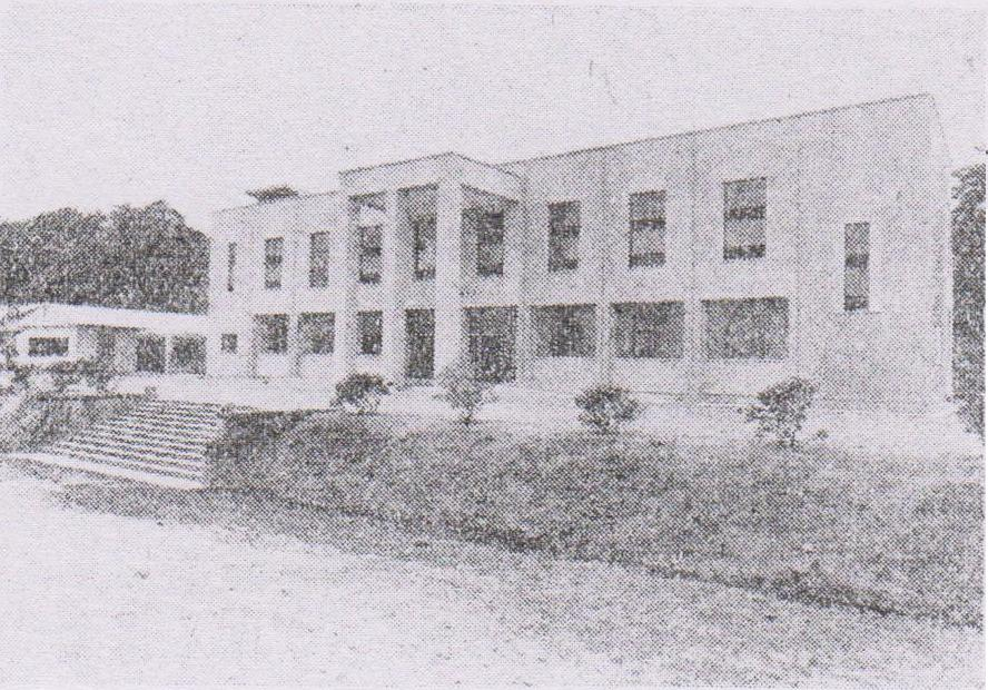 This is the Mie prefectural Museum. This photo was made public at 1953.